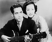 Toshirō Ōmi and Hisako Yamane in 1949 Japanese movie Town elegy of hot water